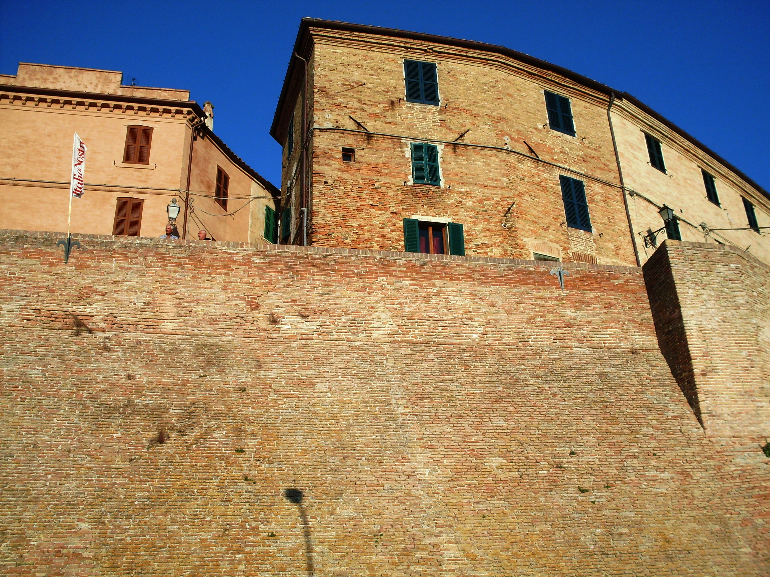 Mura Piticchio